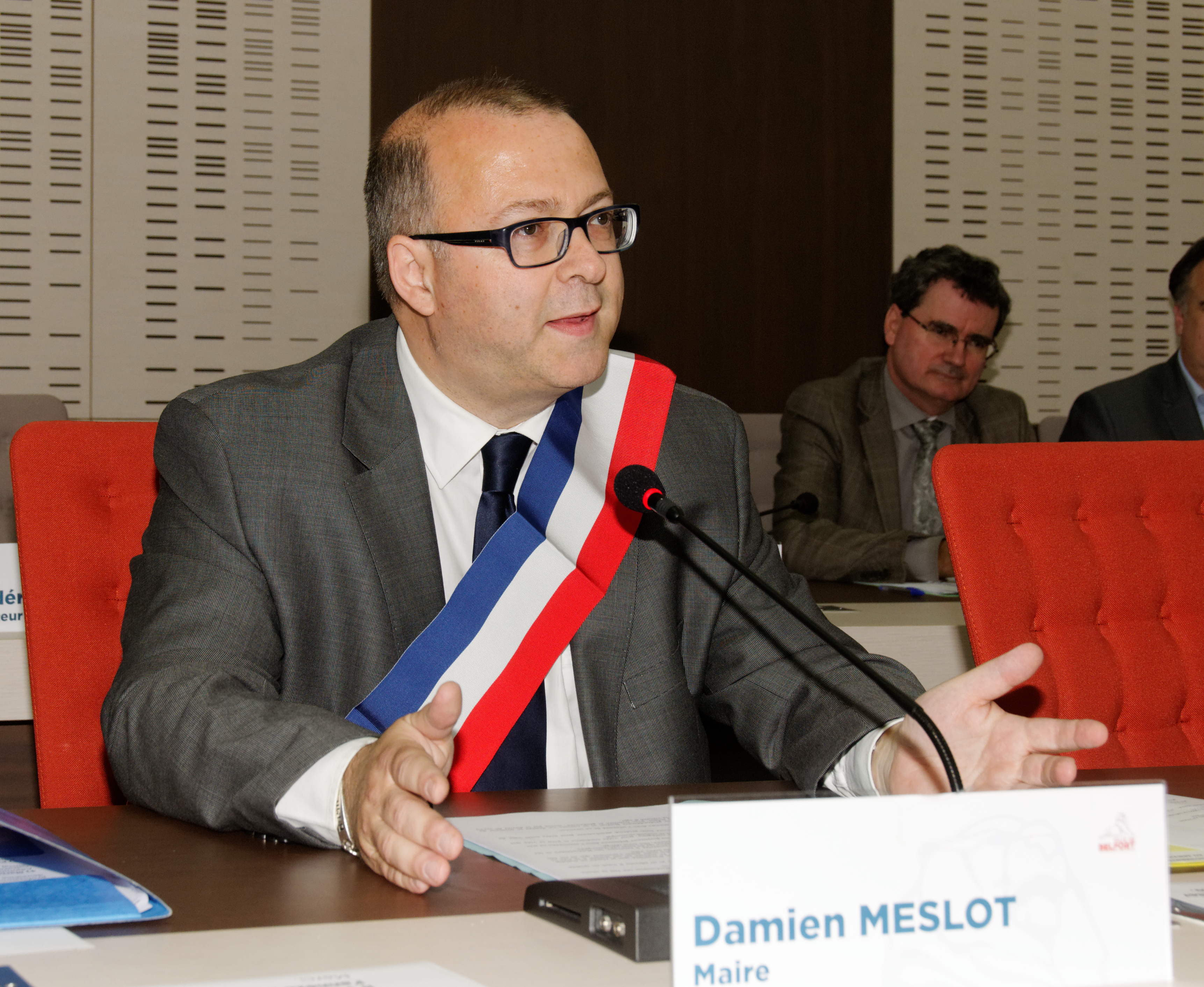 Personality rights warningAlthough this work is freely licensed or in the public domain, the person(s) shown may have rights that legally restrict certain re-uses unless those depicted consent to such uses. In these cases, a model release or other evidence of consent could protect you from infringement claims.